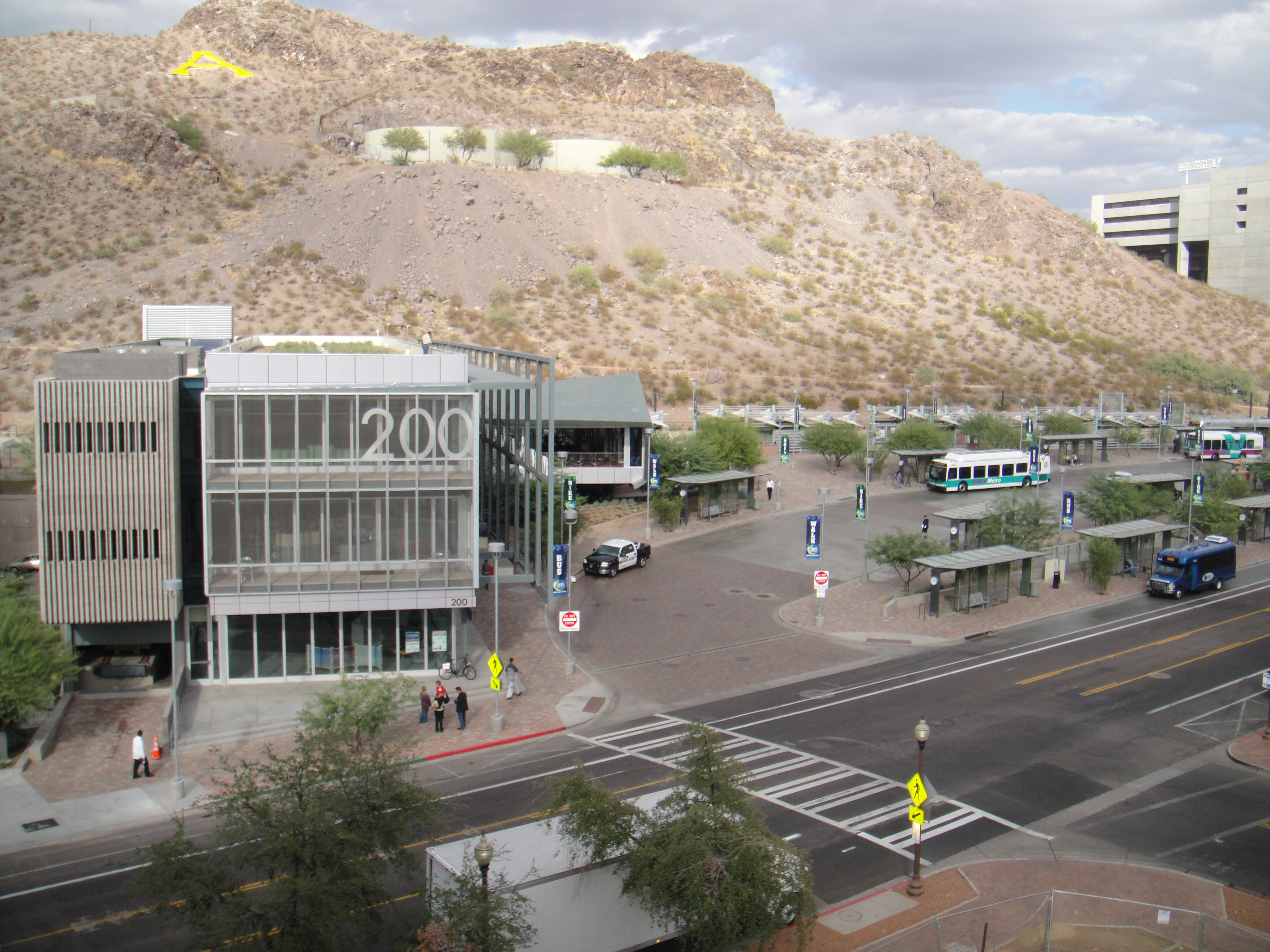 Photo of the Tempe Transit Center from the top of the city hall parking structure looking north.